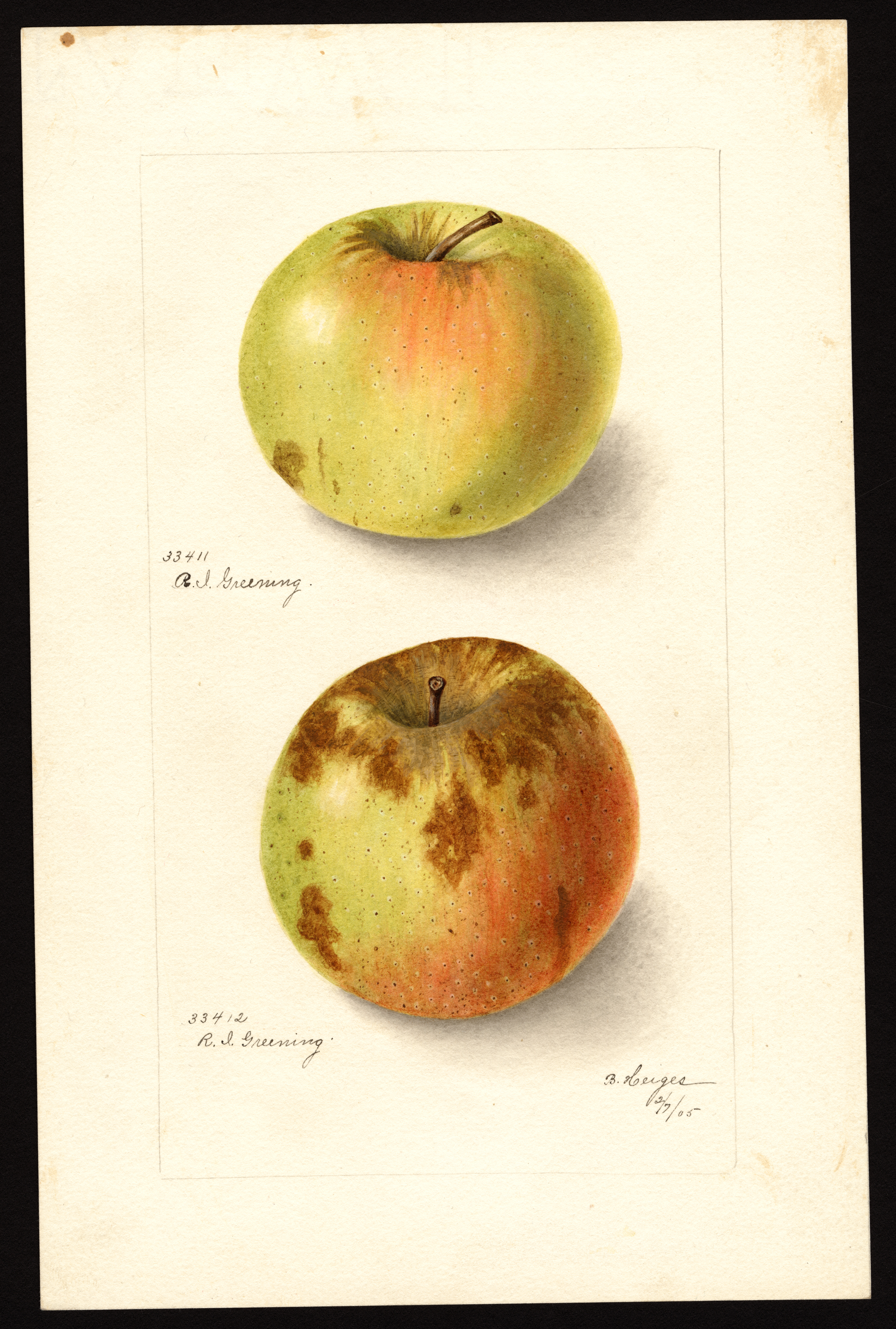 Image of the Rhode Island Greening variety of apples (scientific name: Malus domestica), with this specimen originating in Newburgh, Orange County, New York, United States. Source: U.S. Department of Agriculture Pomological Watercolor Collection. Rare and Special Collections, National Agricultural Library, Beltsville, MD 20705.